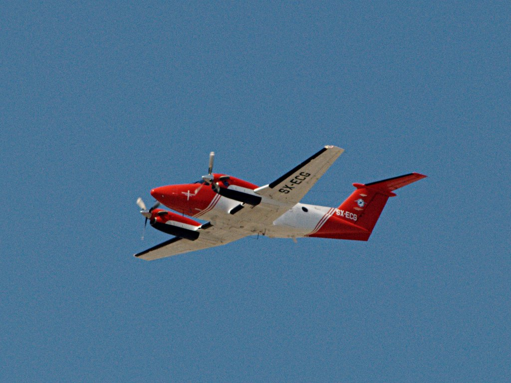 SX-ECG, a Beech 200 Super King Air of the Hellenic Civil Aviation Authority, over Athens, Greece, during calibration of Dekelia Air Base ILS system.